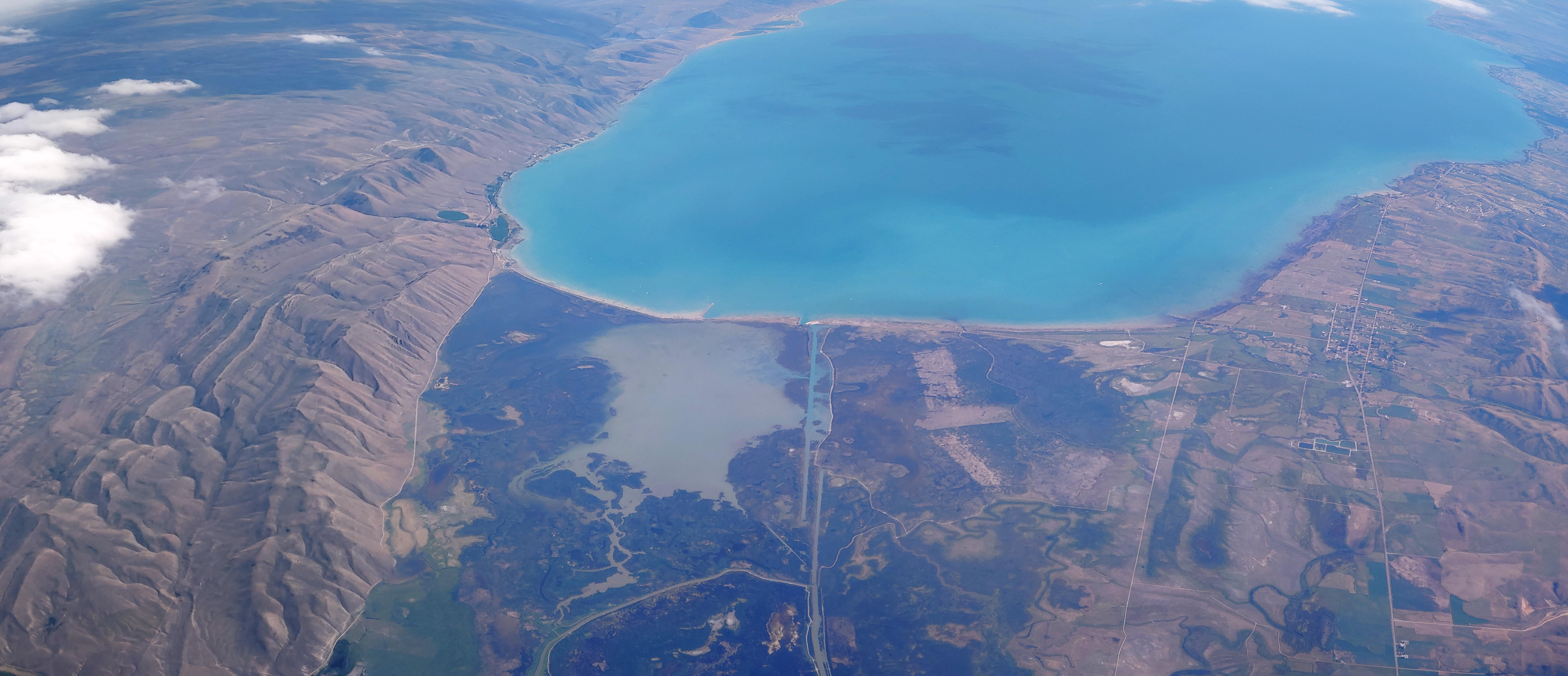 A view from an airplane of Bear Lake, located at the border of Idaho and Utah. Mud Lake and North Beach State Park is visible in the center-left. The outlet canal is visible in the center. The towns of St Charles, Idaho and Fish Haven, Idaho are visible to the right.